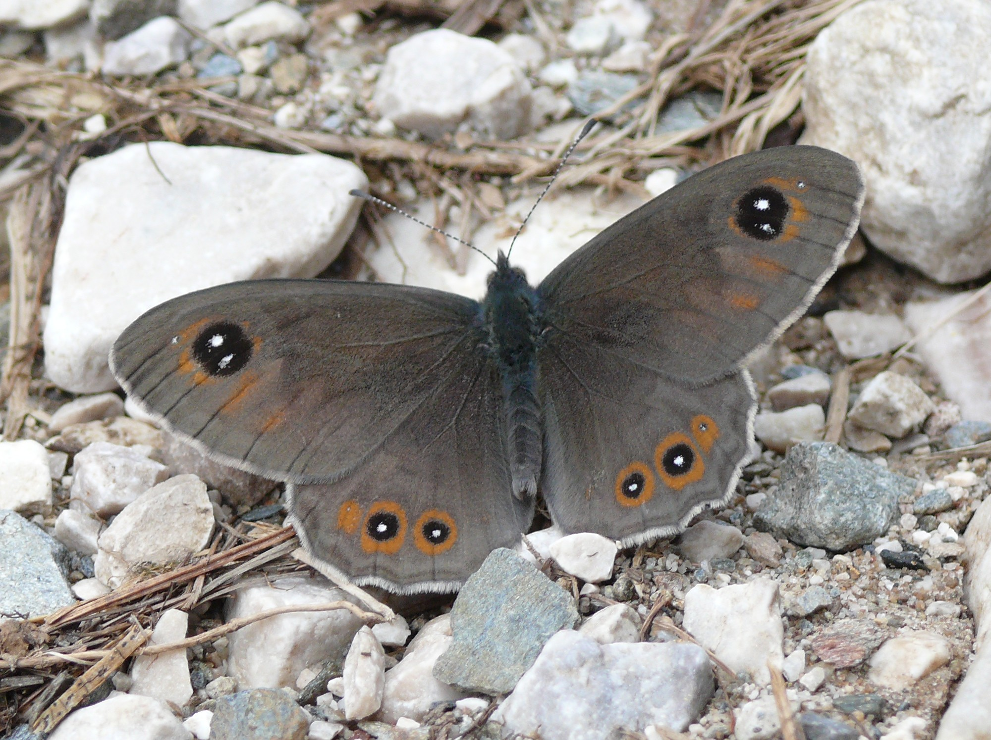 male Large Wall Brown (Lasiommata maera), South Tyrol